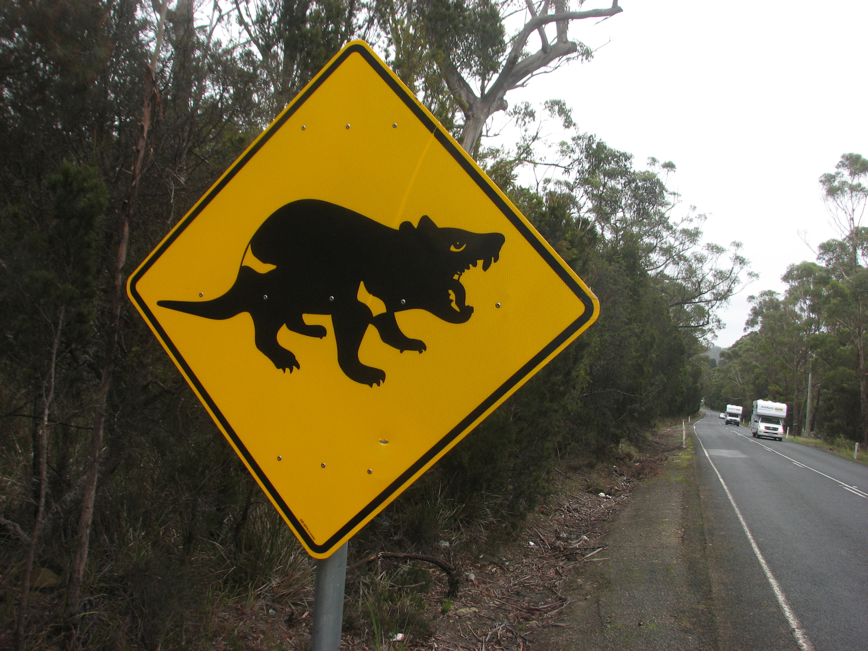 A road sign in Tasmania alerting drivers to the presence of Tasmanian Devils near that road.